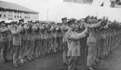 Reading of the Imperial Rescript to Soldiers and Sailors, IJA Engineering School cadets